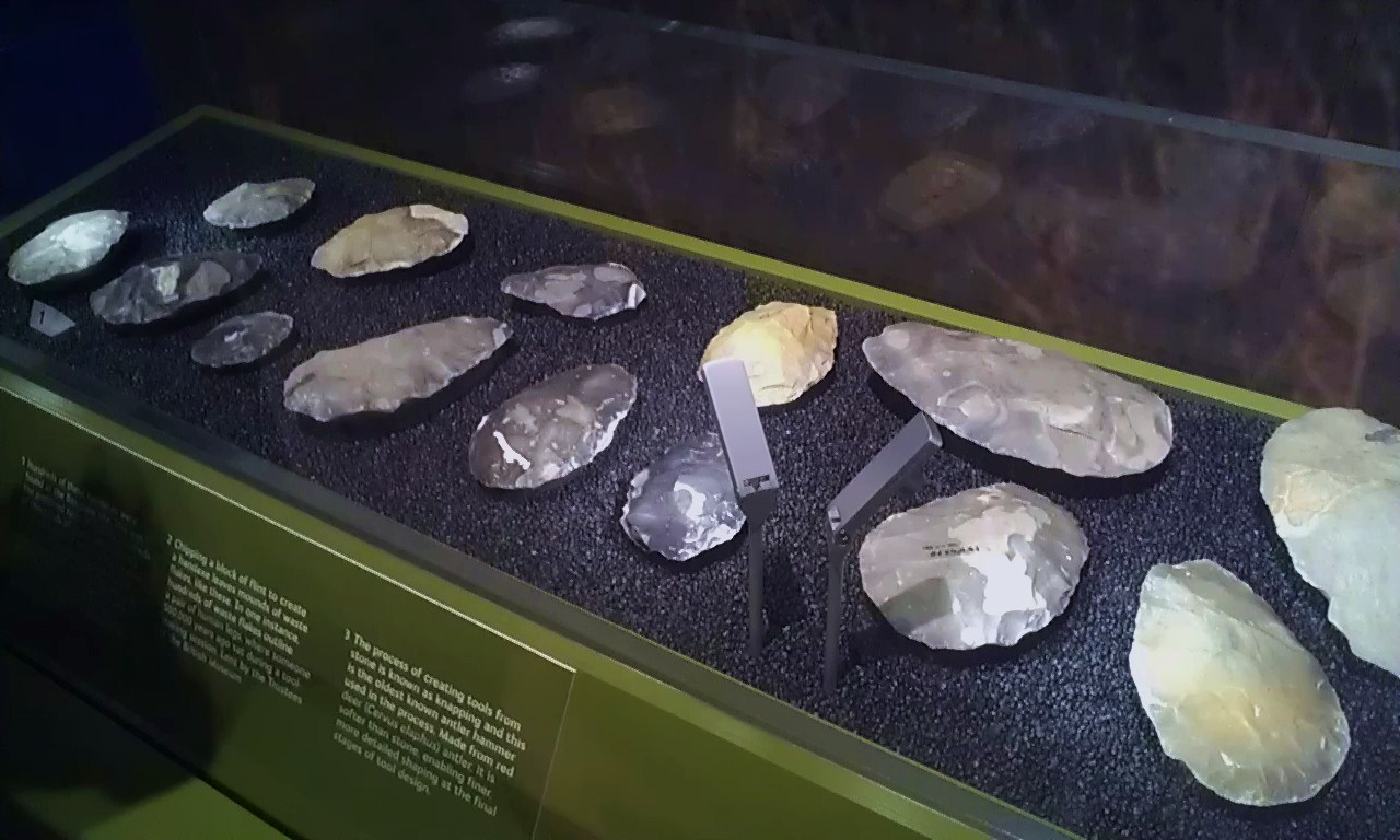 Palaeolithic hand axes excavated at Eartham Pit, Boxgrove, West Sussex. Image taken when they were exhibited at the Natural History Museum in Summer 2014.